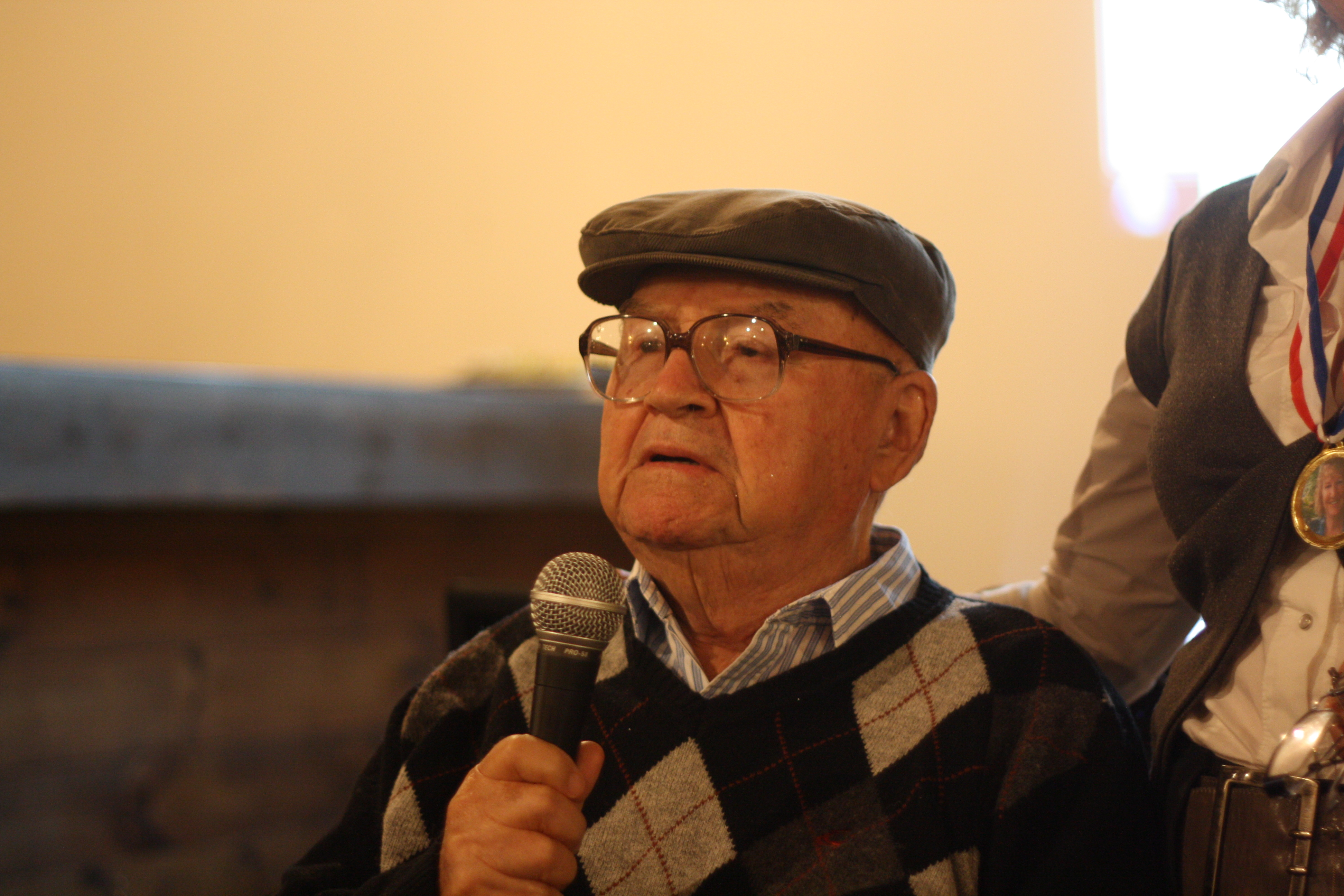 Micha Talmon